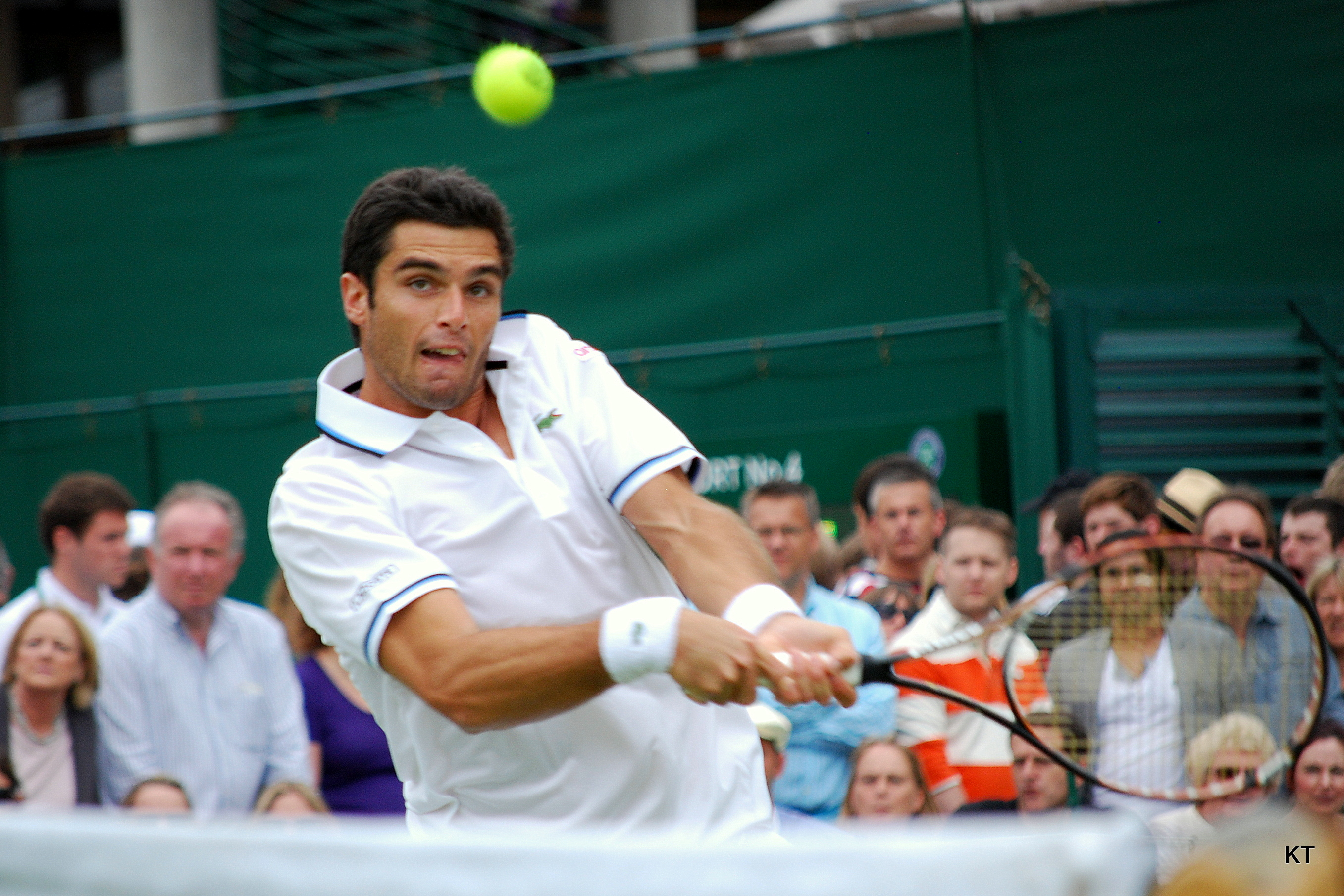 Pablo Andujar during his first round match with Ryan Sweeting. Sweeting won 3-6, 4-6, 6-1, 7-6, 6-1. Day 1 of Wimbledon 2011.